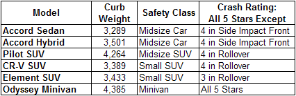 Part of a series of images to illustrate an article on the Analytic Hierarchy Process